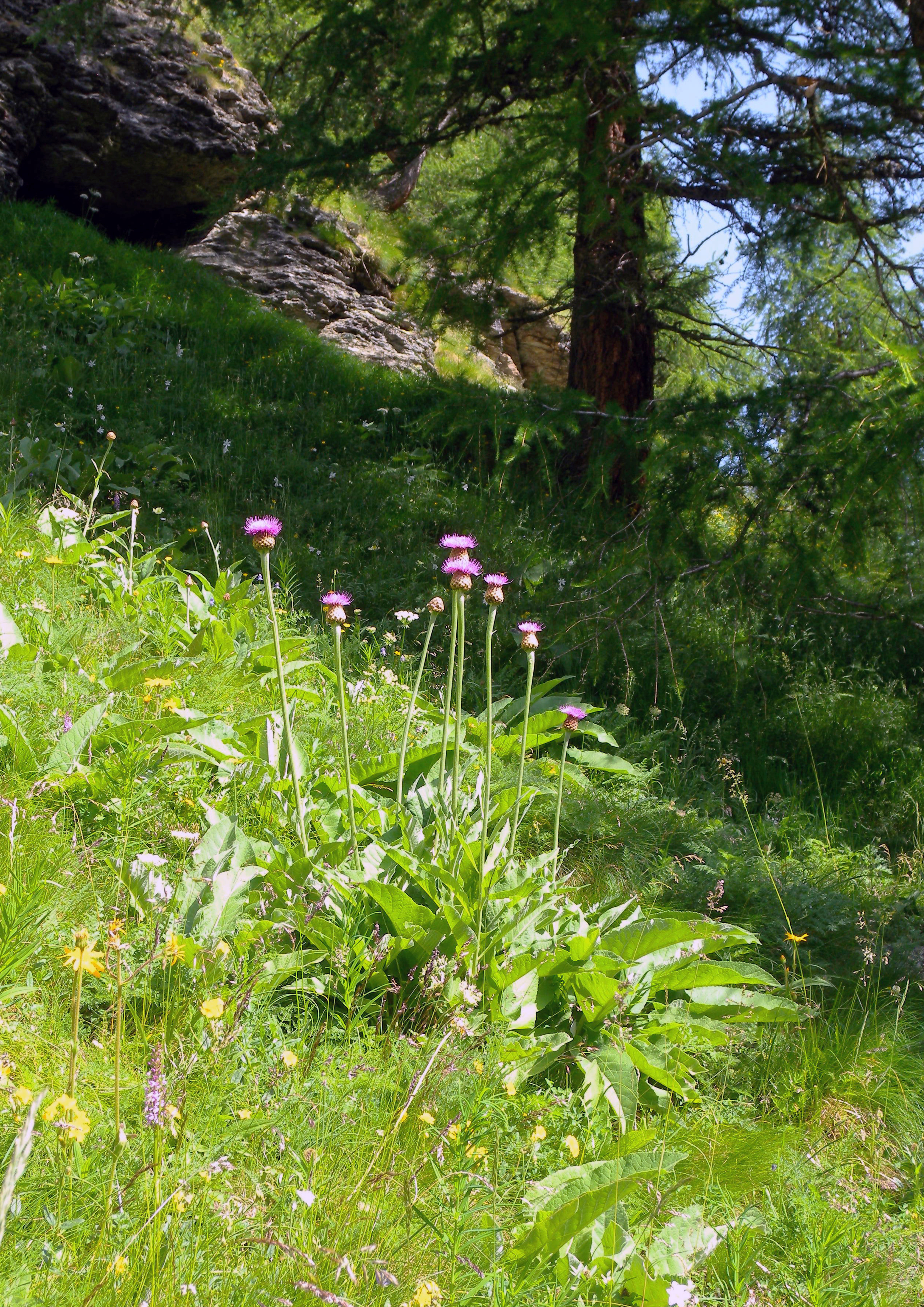 Habitat of Stemmacantha rhapontica (Asteraceae); Arolla, Canton of Valais, Switzerland